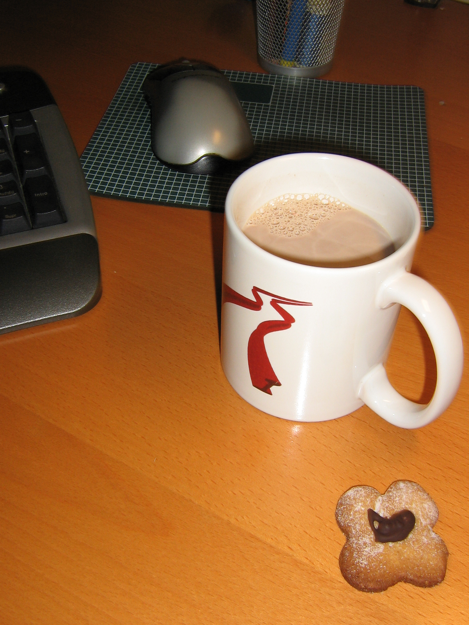 A cup of Cola Cao. Hot chocolate drink originated in Spain.